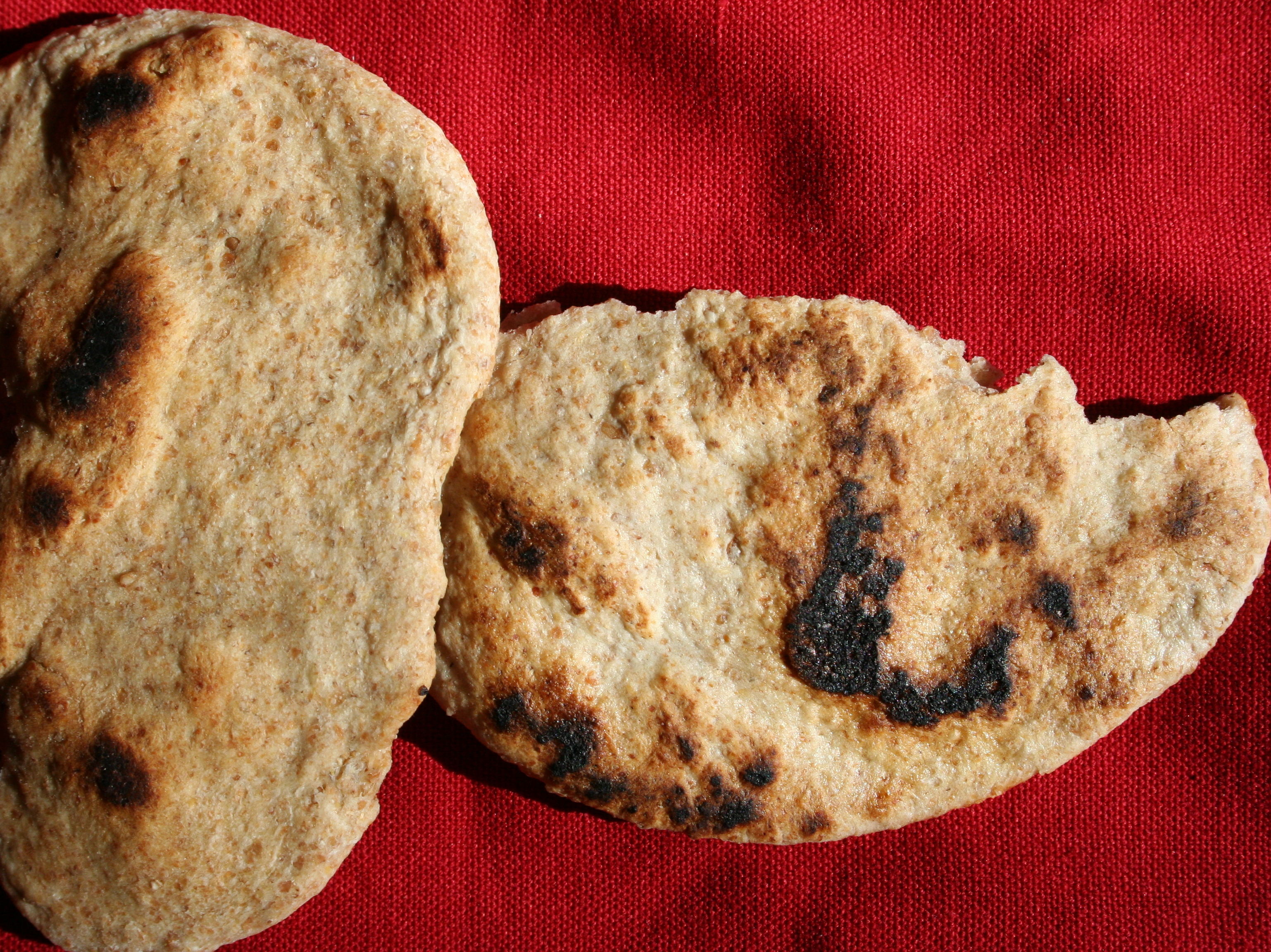 Home baked unleavened flour and water flatbread on a red tablecloth.